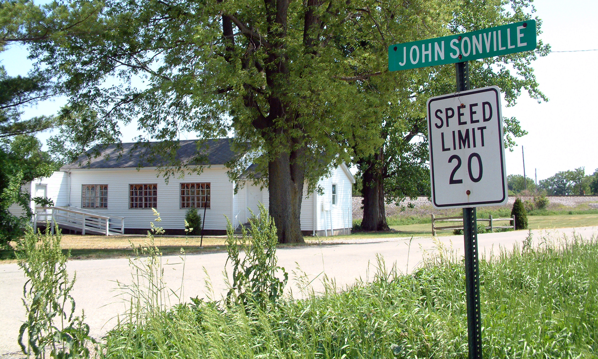 Looking southeast into the small town of Johnsonville, Indiana. The building in the background is Williams Chapel, a non-denominational Christian church.